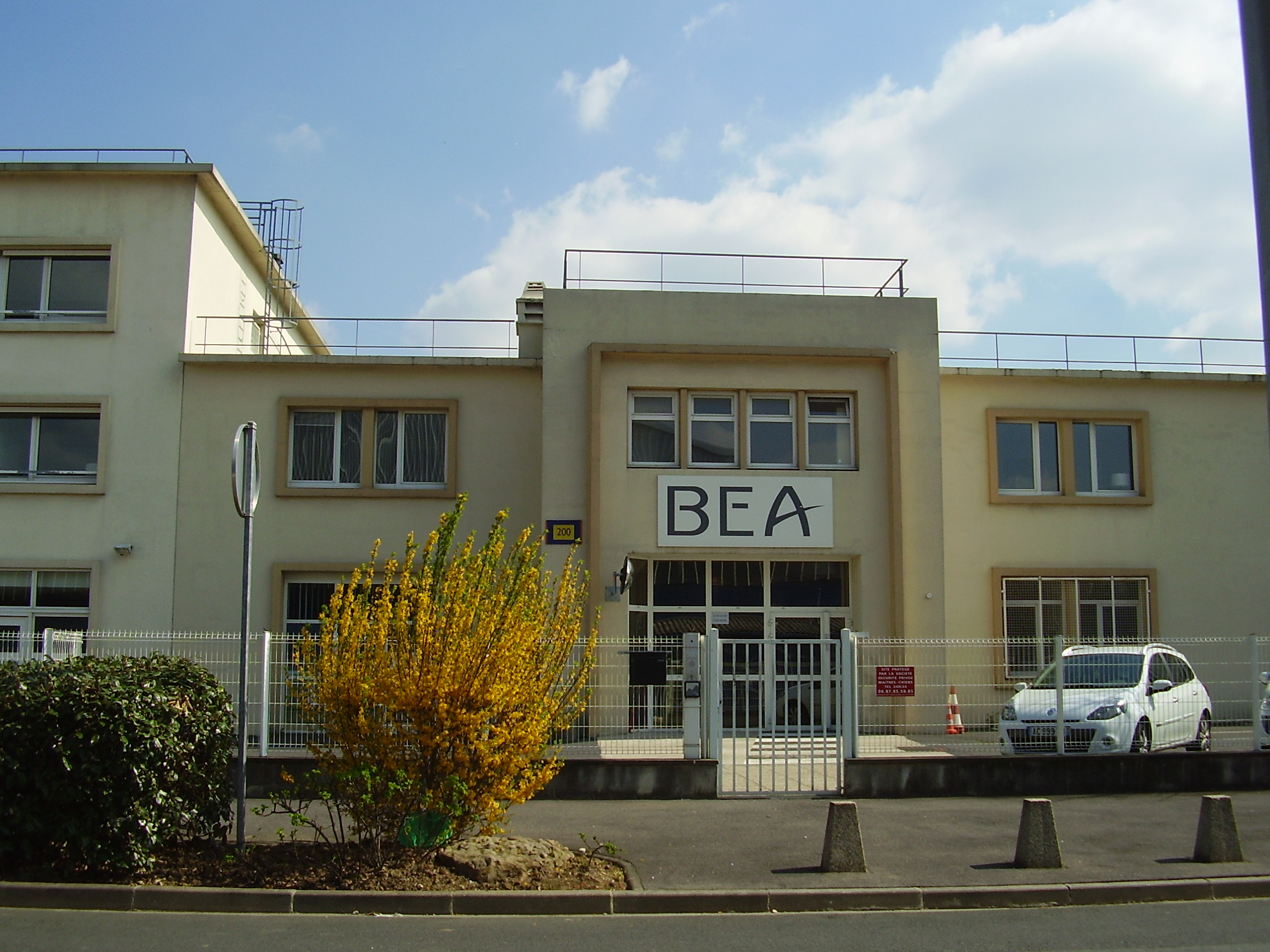 Building 153, the head office of the Bureau d'Enquêtes et d'Analyses pour la Sécurité de l'Aviation Civile - 200 rue de Paris Zone sud Aéroport du Bourget 93352 Le Bourget cedex